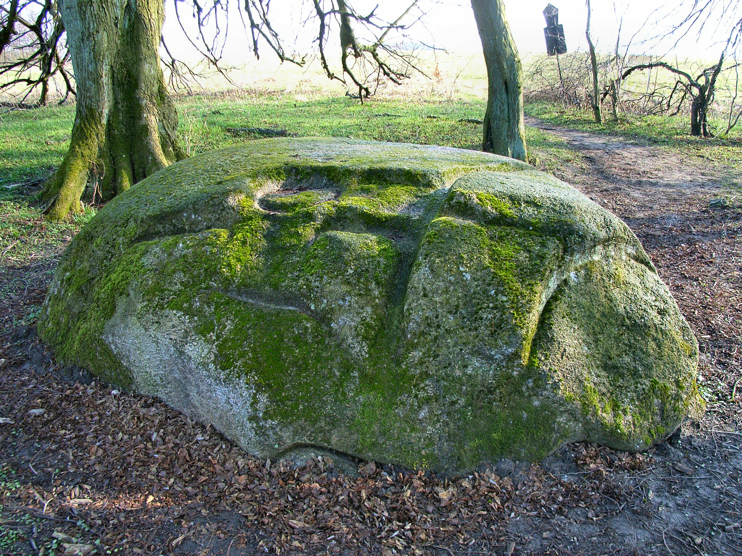 the offering stone near Quoltitz on the island Rügen